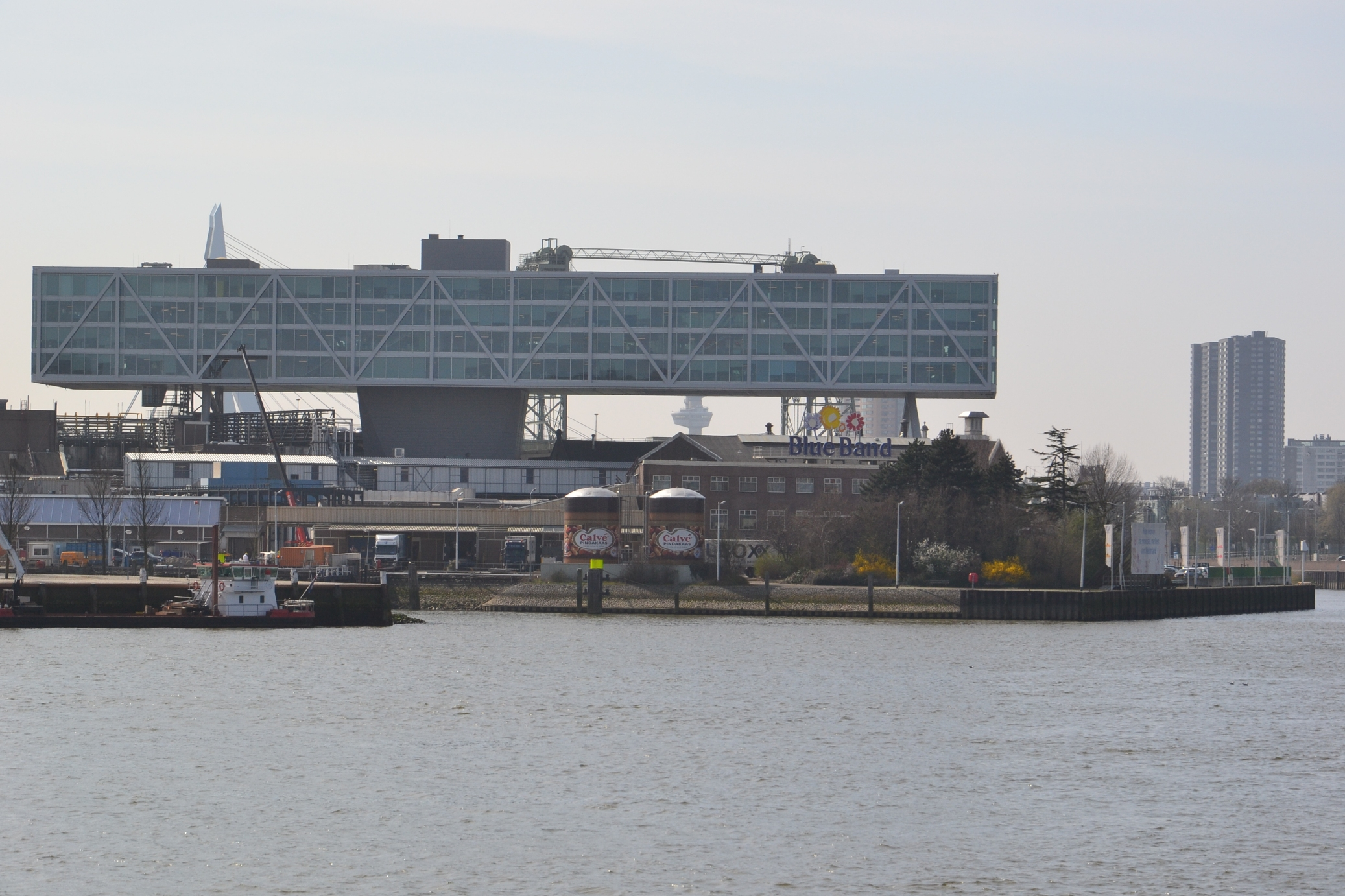 Headquarters of Unilever Holland, Rotterdam.